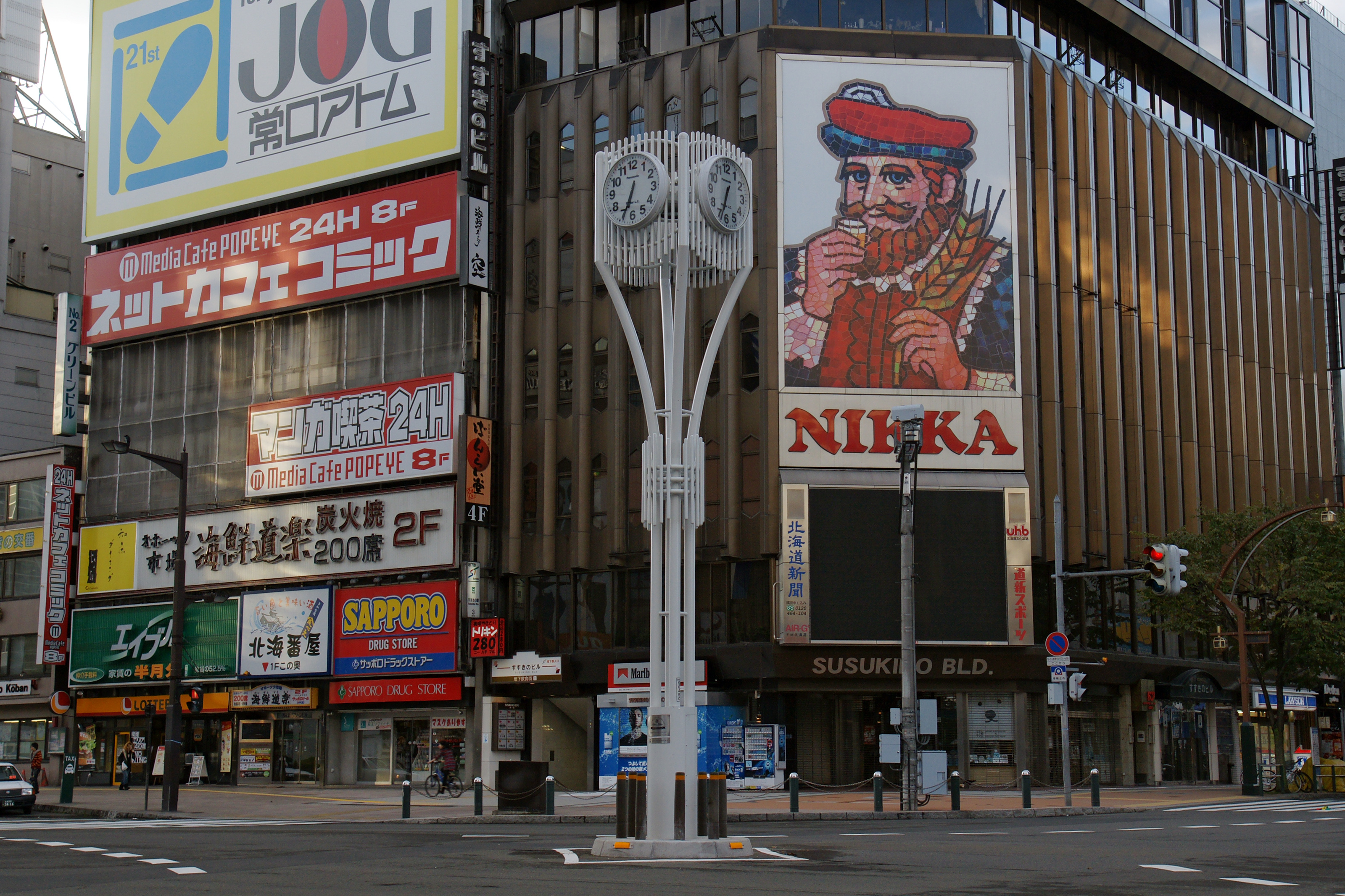 Sapporo Ekimae-dori in Sapporo, Hokkaido prefecture, Japan